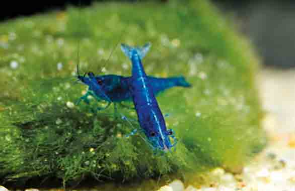 Two blue morph Neocaridina davidi shrimps